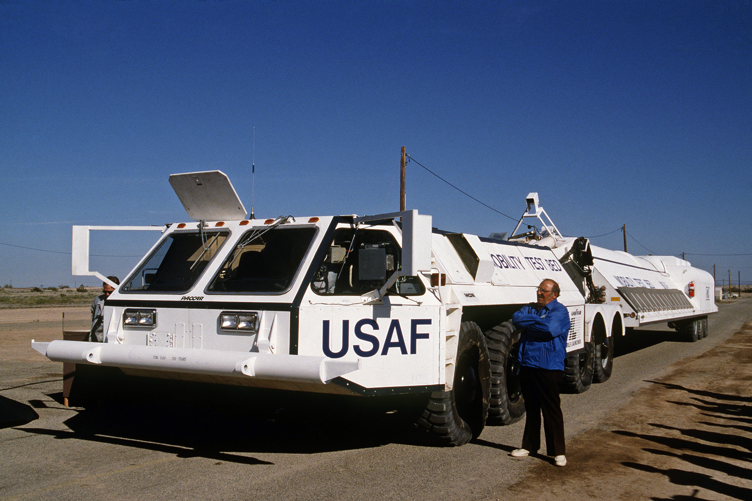 The Boeing version of the small intercontinental ballistic missile hard mobile launcher (HML) undergoes mobility testing at the Yuma Proving Grounds.